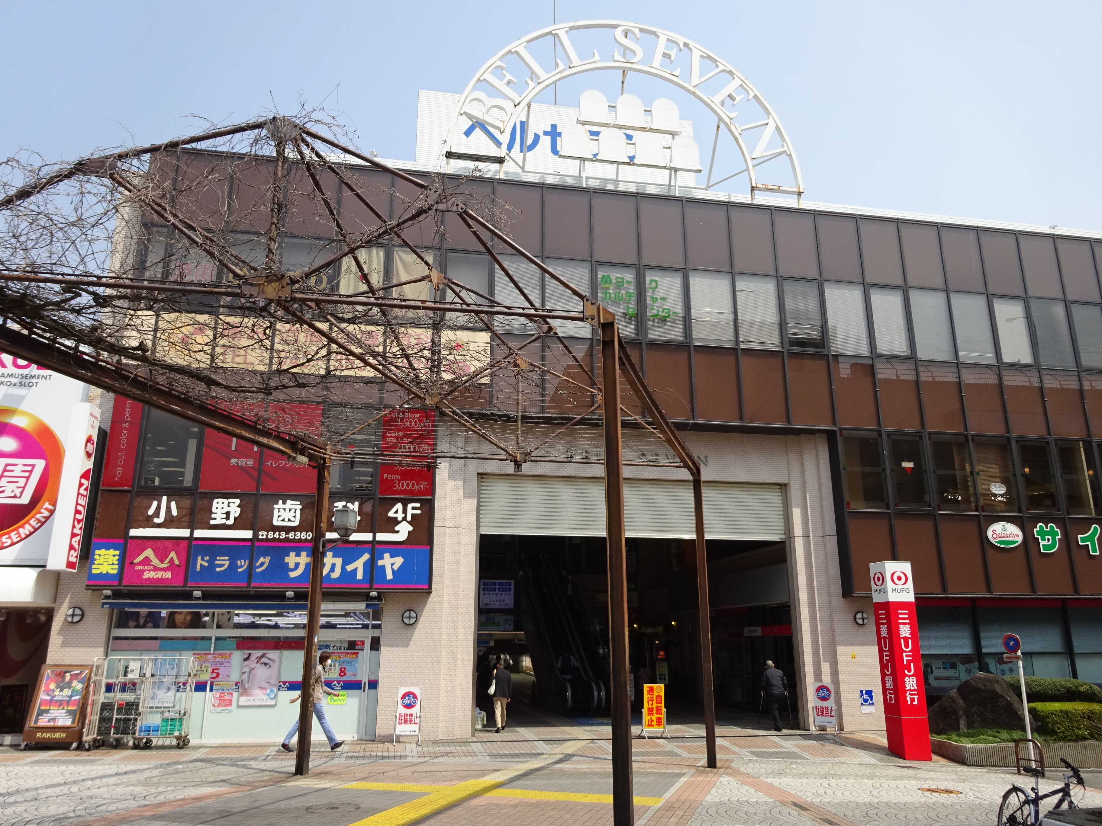 ""Bell Seven"" (Adjacent to Kaminagaya Station)